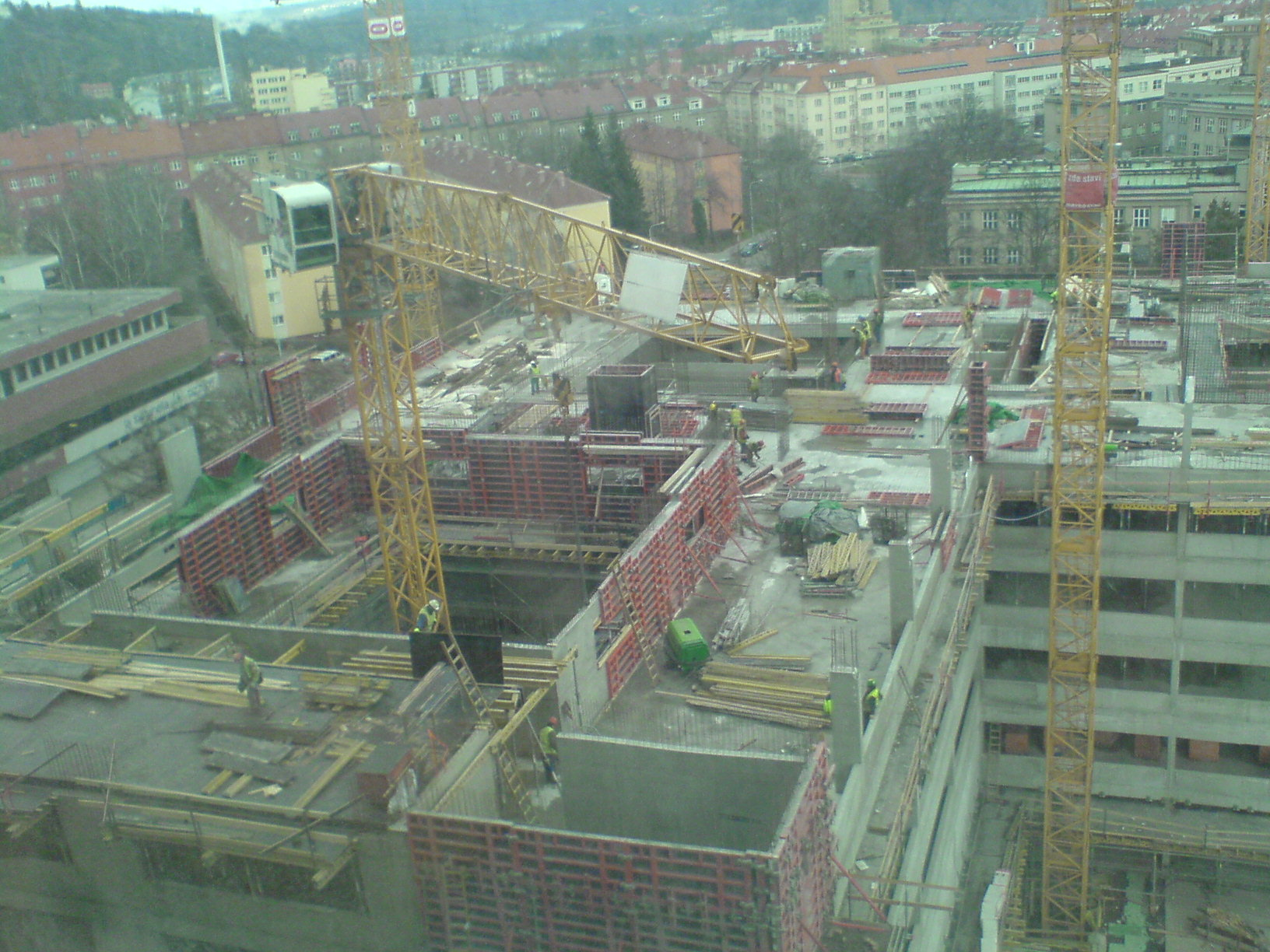 New building of Faculta Architektury ČVUT in Prague